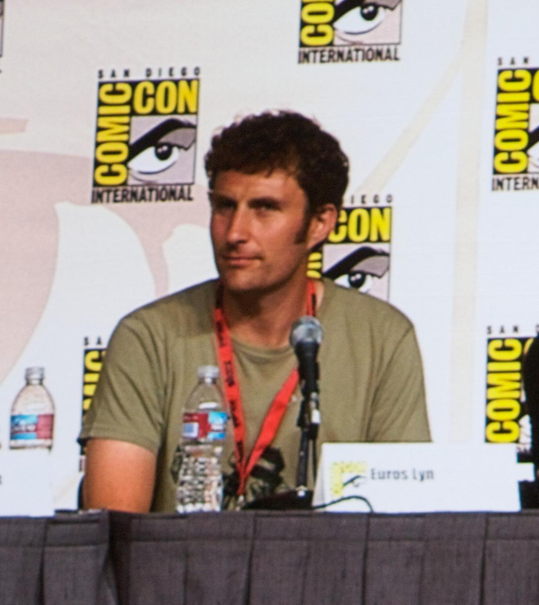 Director Euros Lyn – 2009 Comic-Con International – "Doctor Who" panel.